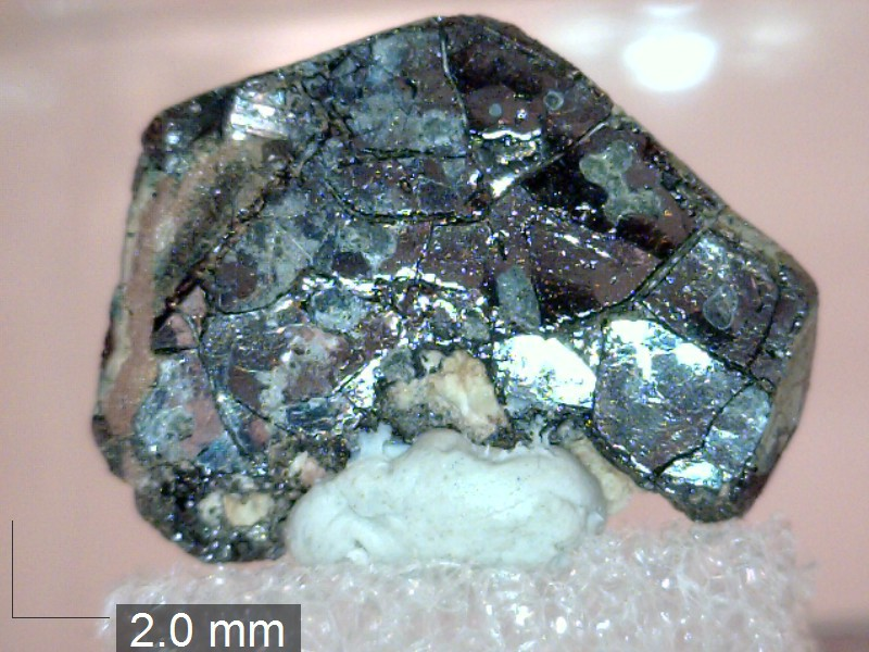 Almeidaite Locality: Unnamed deposit, Novo Horizonte, Bahia, Brazil Dimensions: 17 mm x 12 mm x 4 mm Part of fully developed cristal of Almeidaite exhibiting the typical crackled surface patterns and metallic shine. Acquired from Luiz Alberto Dias Menezes Filho with autographed label. Specimen from the type locality in Brazil.